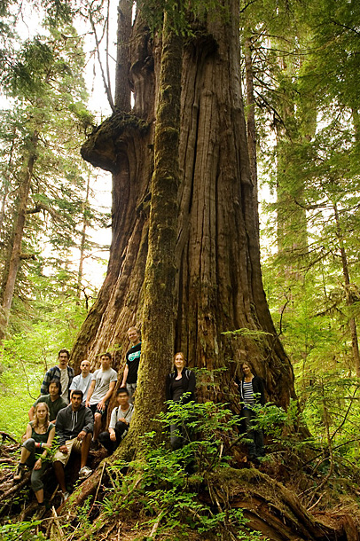 A group of hikers crowd around the massive Tolkien Giant growing un-protected in the Upper Walbran Valley.